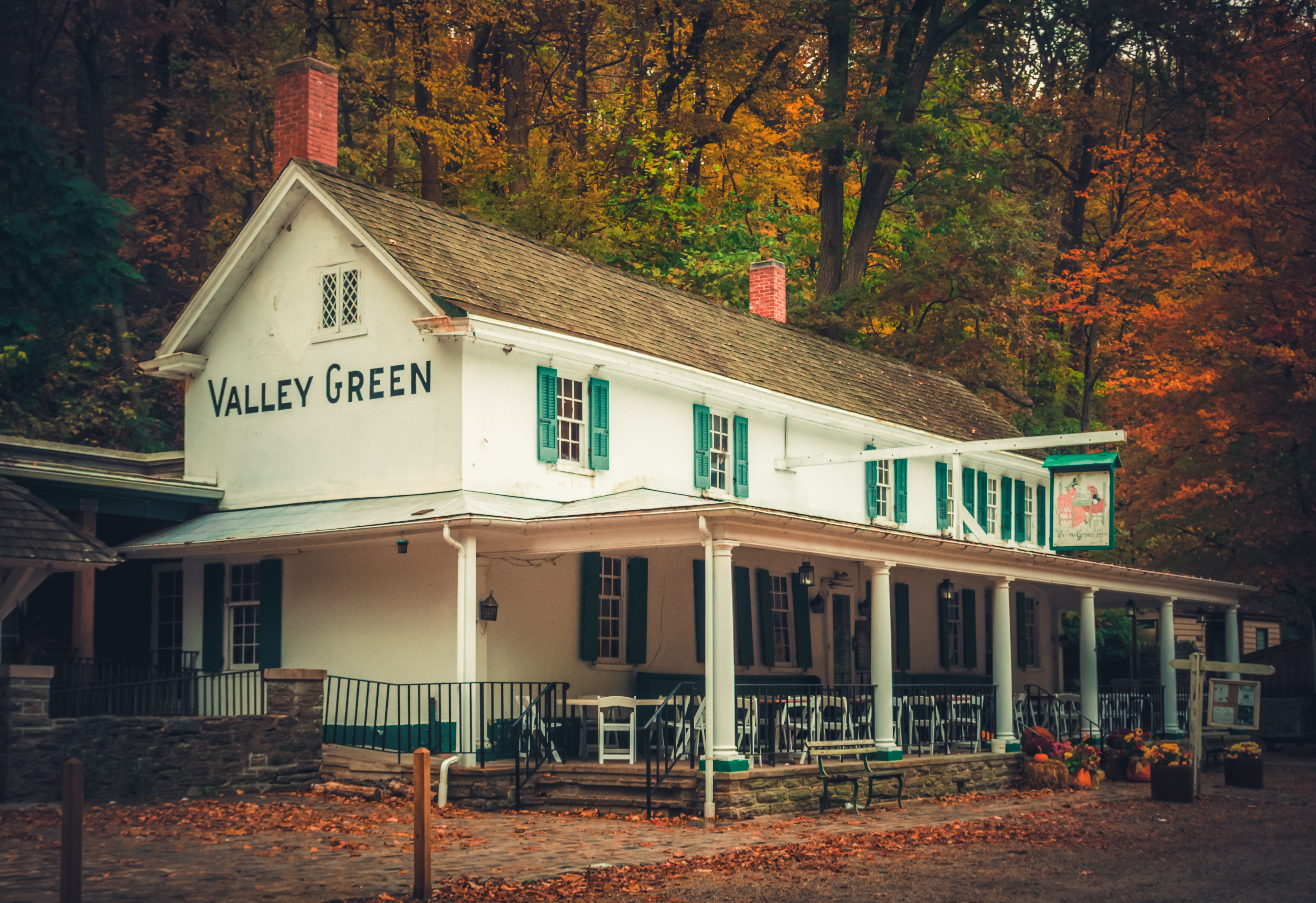 The most popular landmark and meeting place in the Wissahickon Valley. The inn was built in the 1850s specifically for visitors and travelers along the Forbidden Drive. [url= Green Inn History[/url] Fairmount Park is listen in the National Register of Historic Places